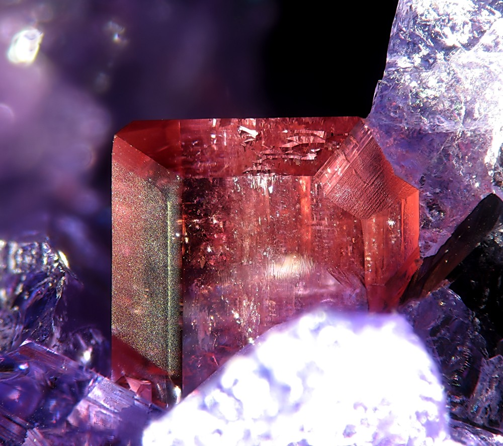 Phosphosiderite Locality: Hagendorf South Pegmatite (Cornelia Mine; Hagendorf South Open Cut), Hagendorf, Waidhaus, Vohenstrauß, Oberpfälzer Wald, Upper Palatinate, Bavaria, Germany (Locality at ) Red Phosphosiderite between violet Strengite. Picture width 4 mm. Collection and Photo Christian Rewitzer